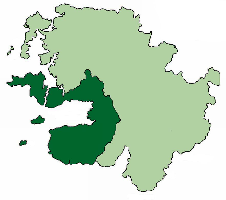 Map of the Kingdom of Umaill, comprised of the baronies of Burrishoole and Murrisk.